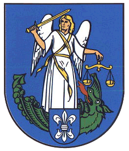 Coats of arms of Buttstädt